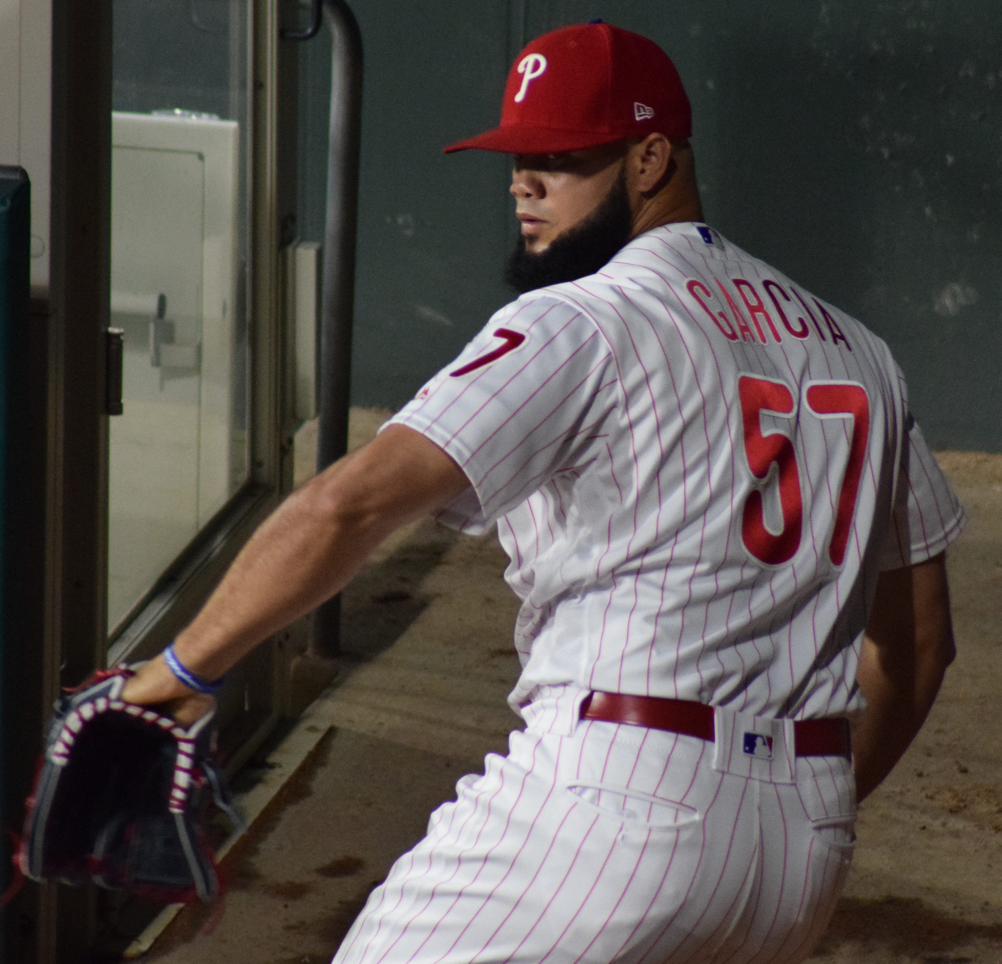 Luis Garcia of the Philadelphia Phillies warms up in the bullpen at Citizens Bank Park in Philadelphia in 2018